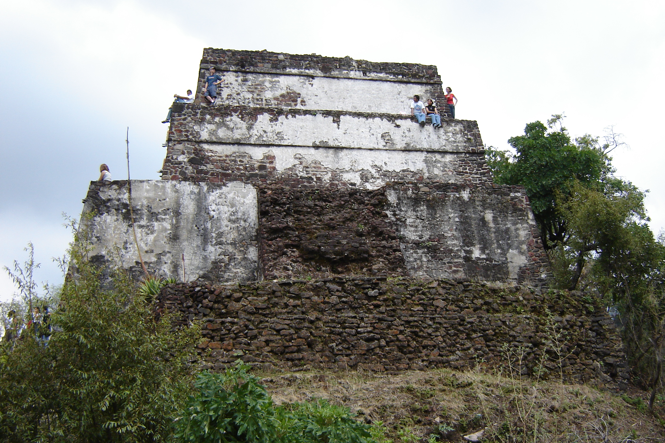 The Aztec pyramid of El Tepozteco, Tepoztlán, Mexico